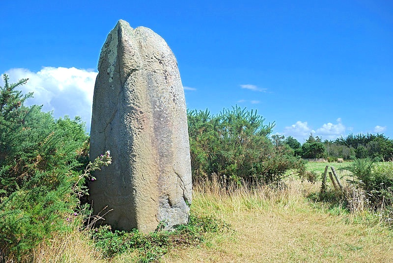 Menhir of Kermailard in the Presque-isle of Rhuys (Sarzeau, Morbihan, France)